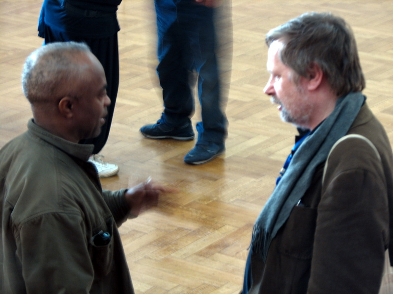 Charles Burnett & Guido Convents at the Mar del Plata film festival in 2007.